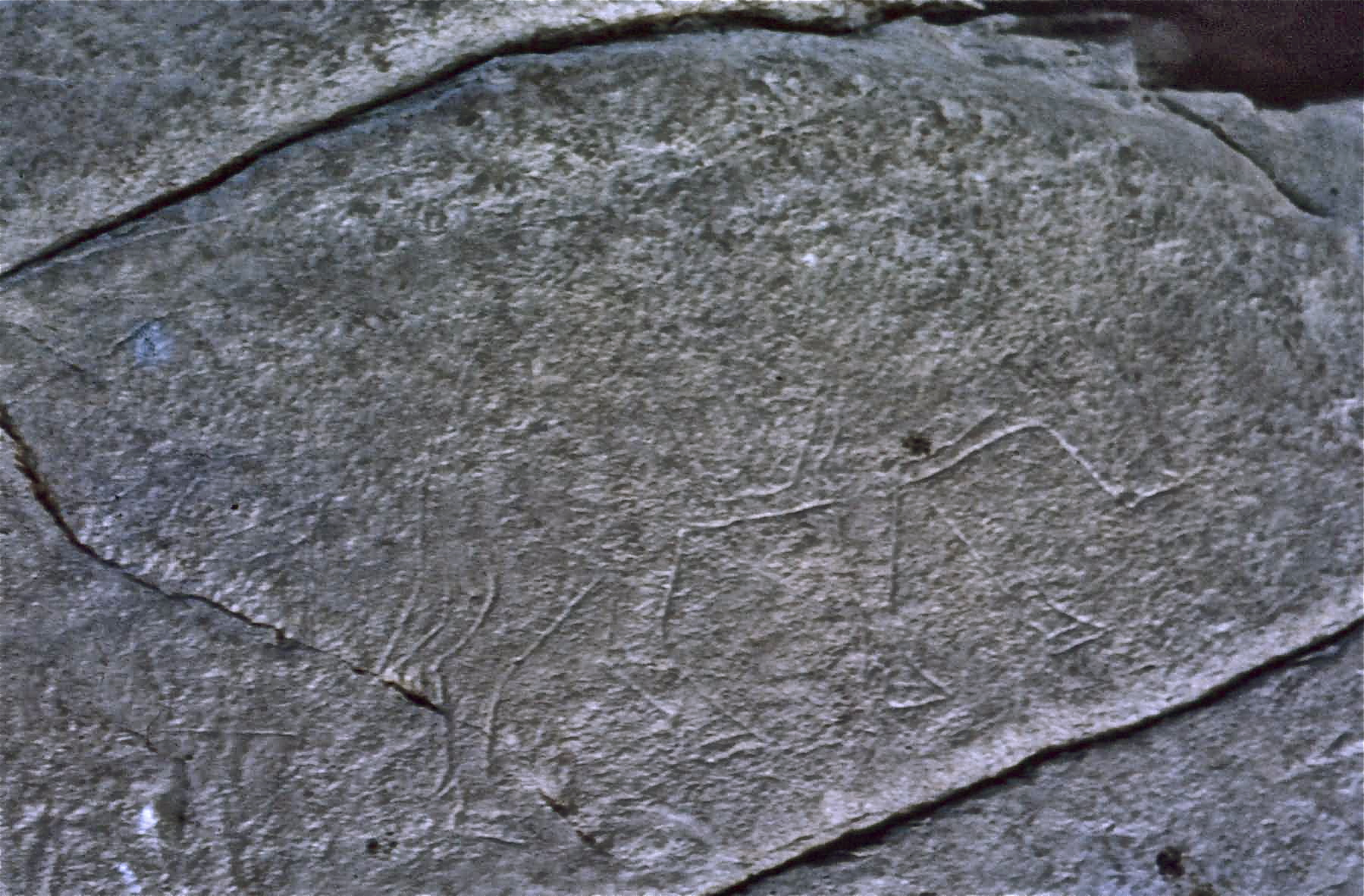 1979 photo near the top of the hill